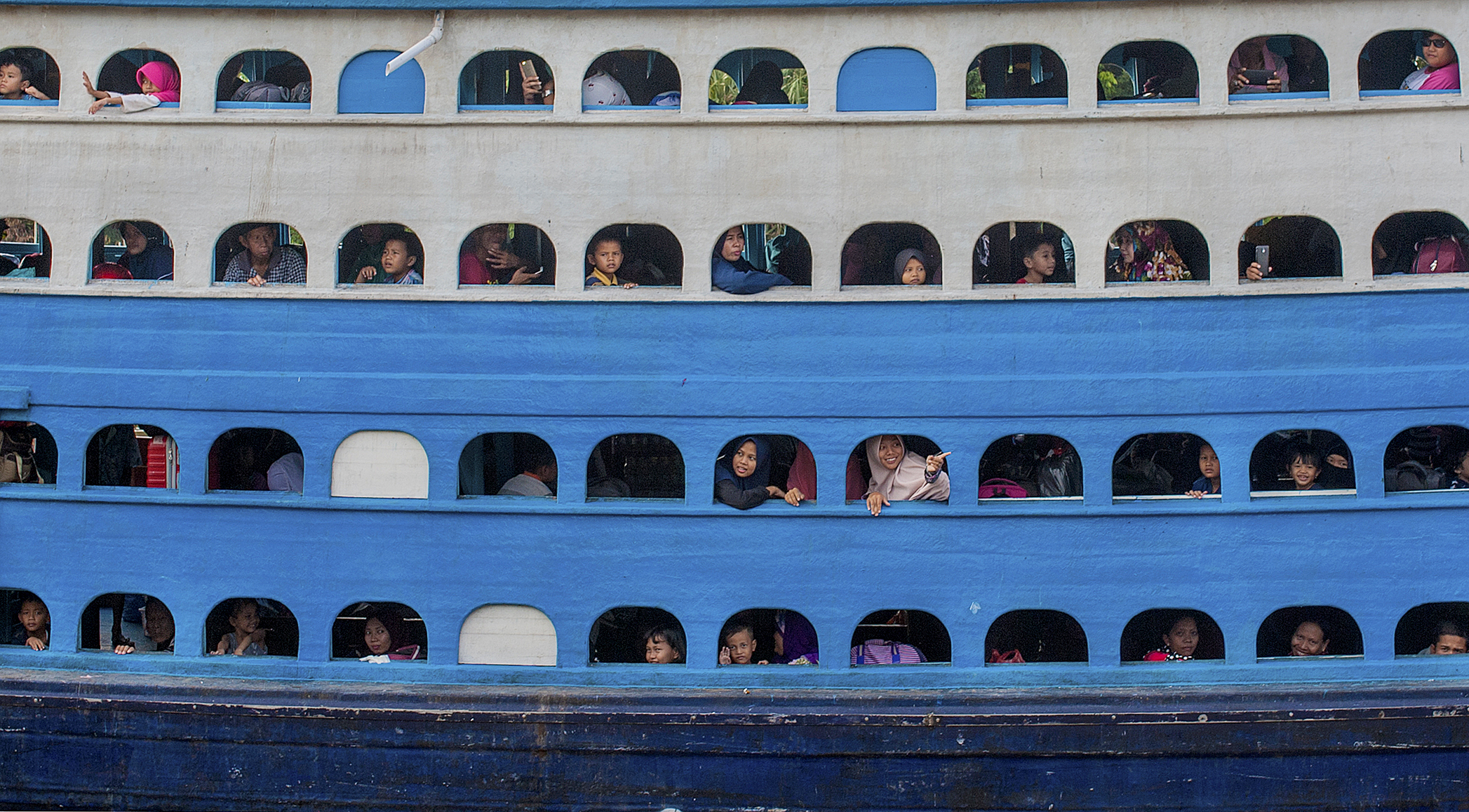 Lebaran homecoming tradition with jelatik ships